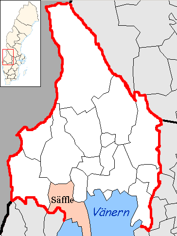 Säffle Municipality in Värmland County Designd by me, based on Image:Värmland County.png